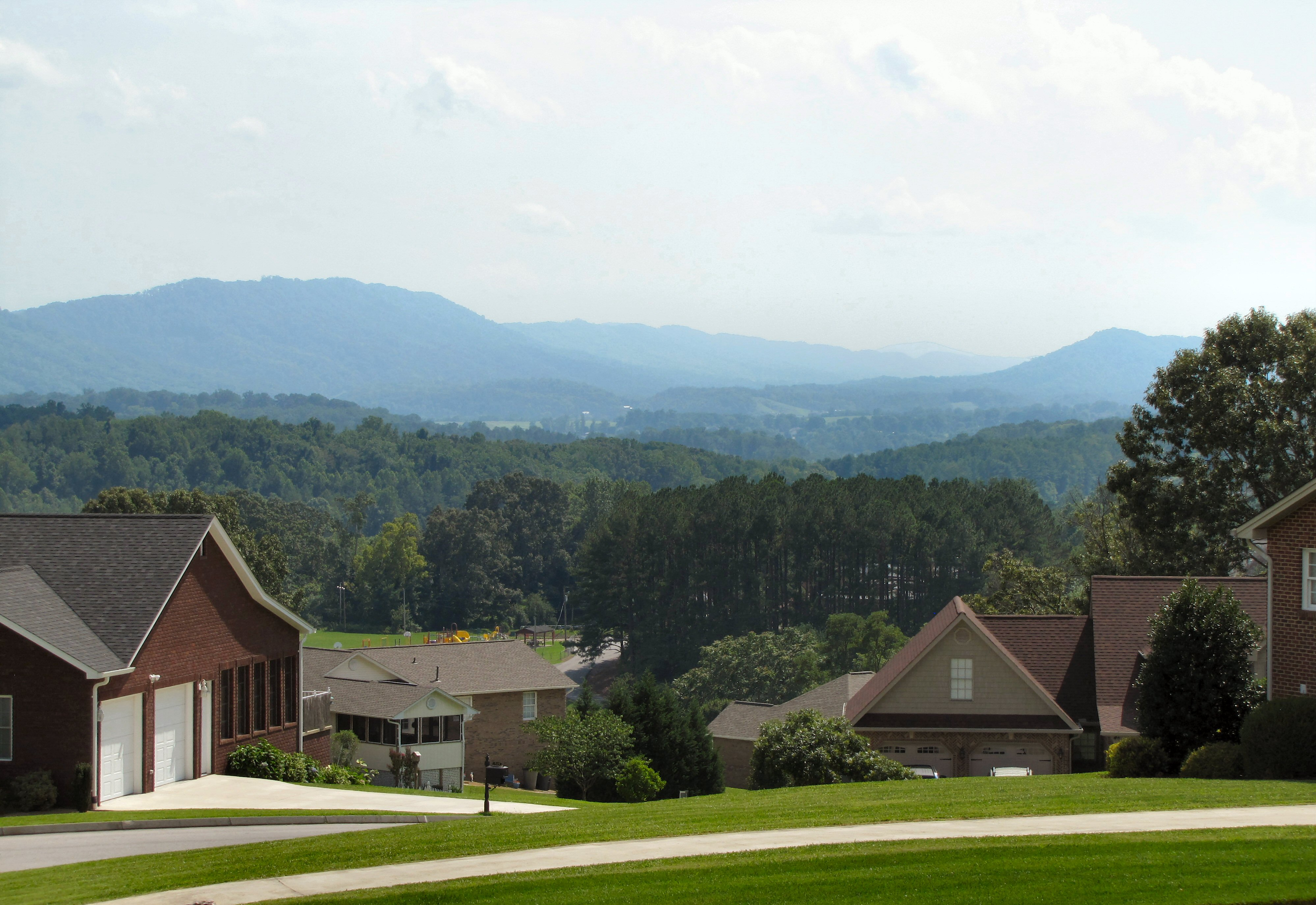 Houses along Carrie Circle in Mount Carmel, Tennessee, United States.